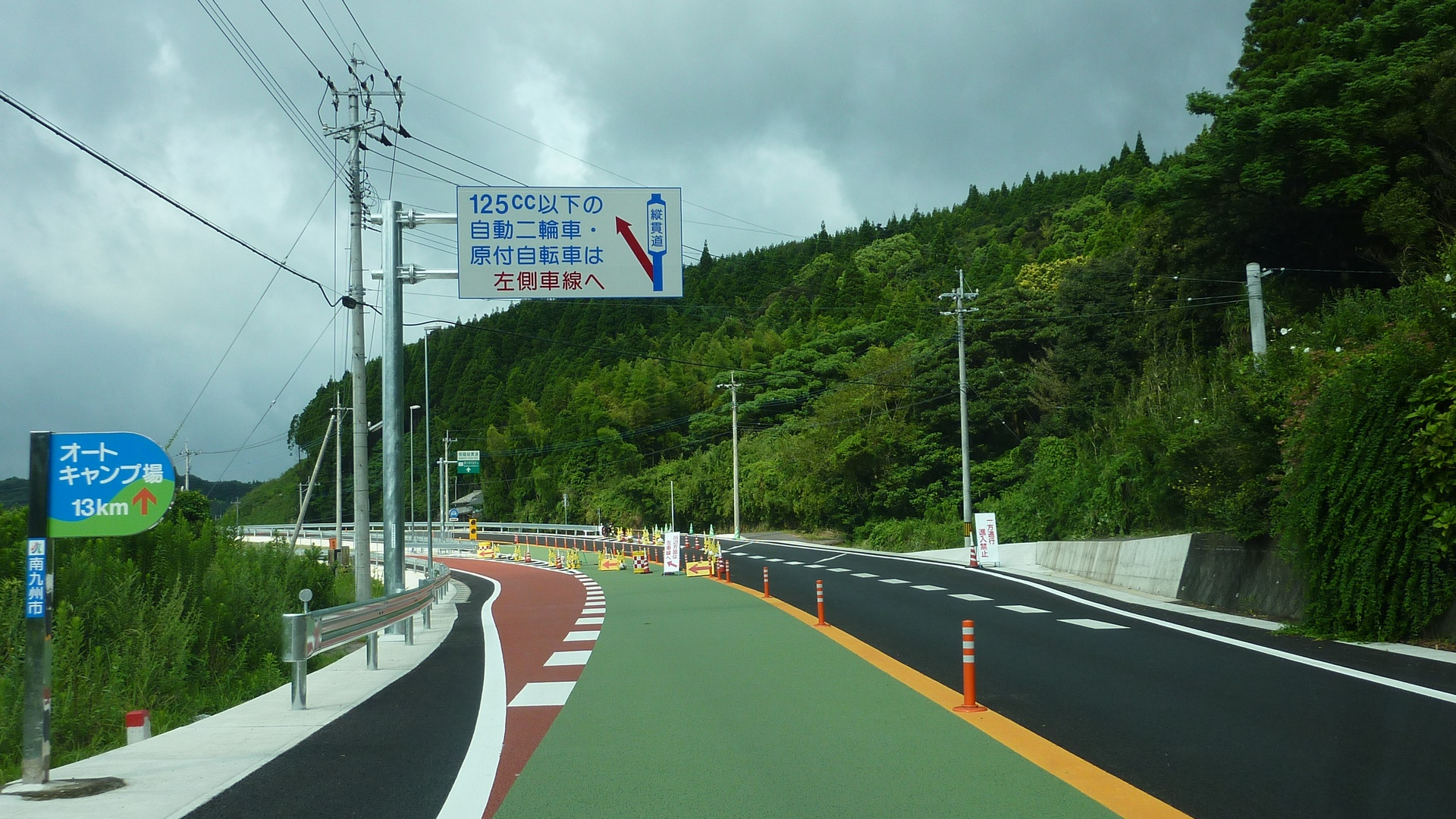 Nansatu (South Satsuma) traverse Road - Kawanabe Dam Interchange (Minamikyushu City, Kagoshima Prefecture, Japan)